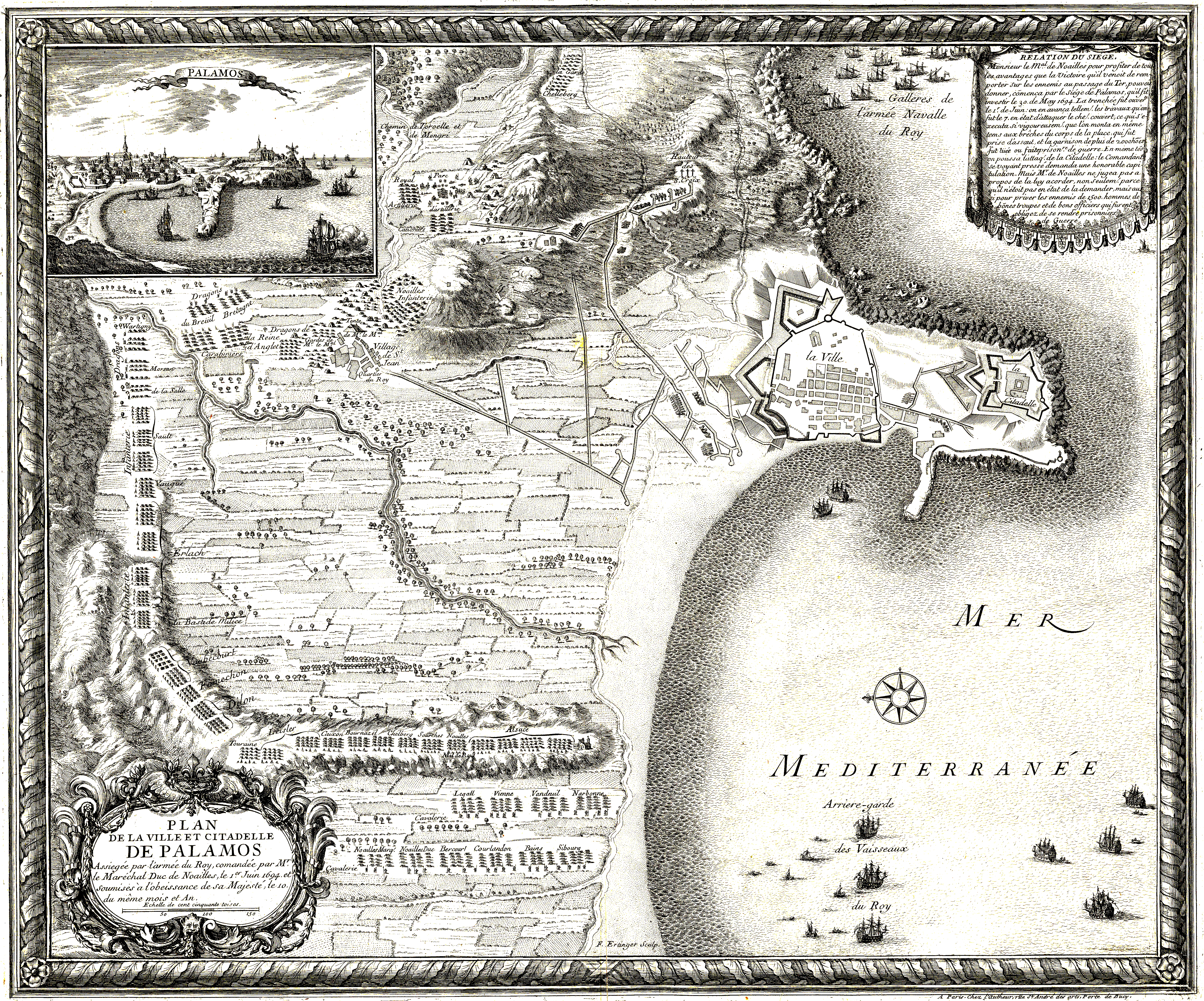 Engraving representing the French siege on Palamos between 1 and 10 June 1694